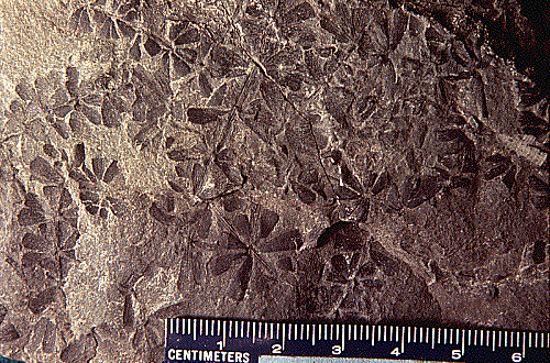 Compression fossil of Sphenophyllum foliage